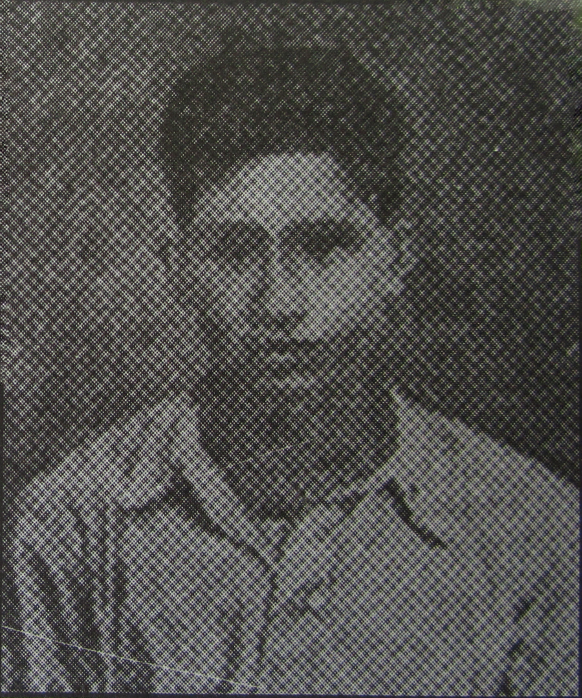 Harigopal Bal